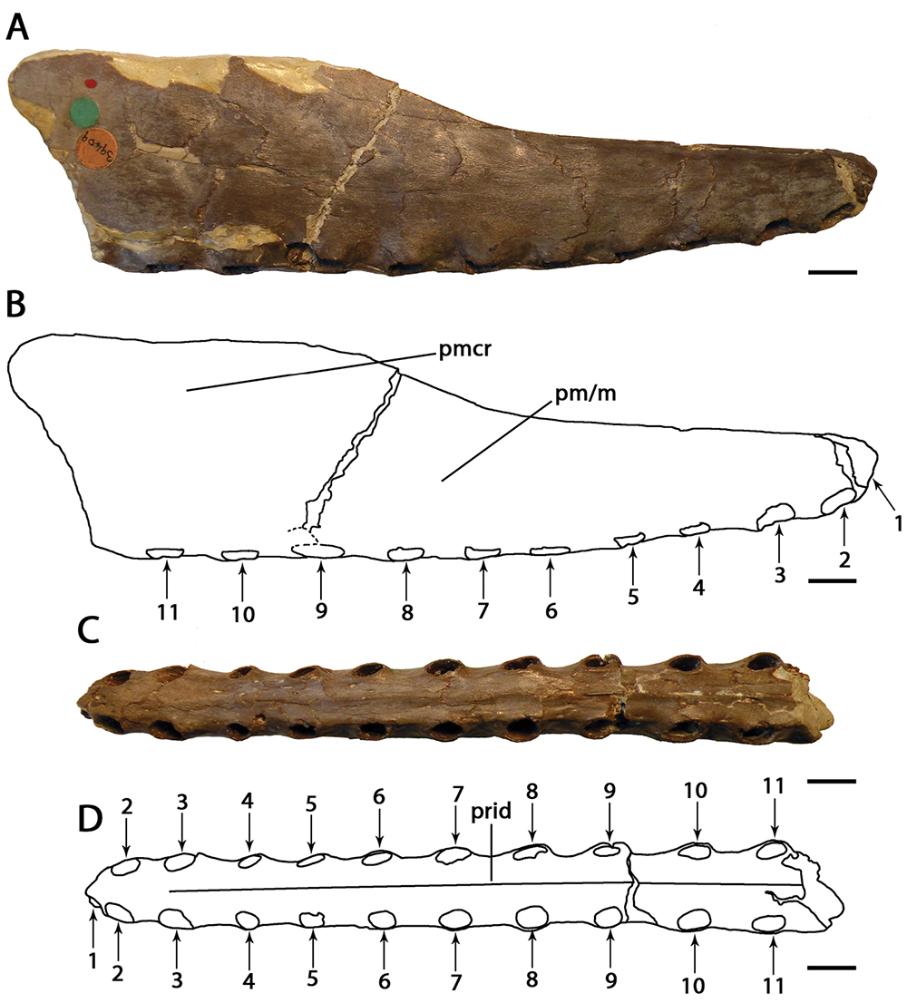 Cimoliopterus cuvieri. Holotype NHMUK PV 39409 (Cenomanian / Turonian, Chalk Formation), anterior part of the rostrum A right lateral view B respective line drawing C ventral view D respective line drawing. Abbreviations: m – maxillae, pm – premaxillae, pmcr – premaxillary crest, prid – palatal ridge. Arrows and numbers indicate alveoli or teeth and their respective position. Scale bar = 10 mm. Photos courtesy of The Natural History Museum.